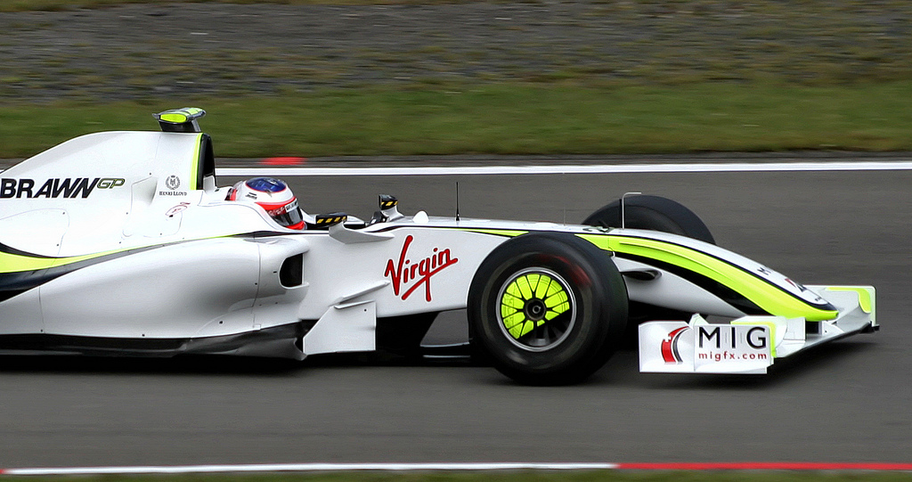 Rubens Barrichello driving for Brawn GP at the 2009 German Grand Prix.